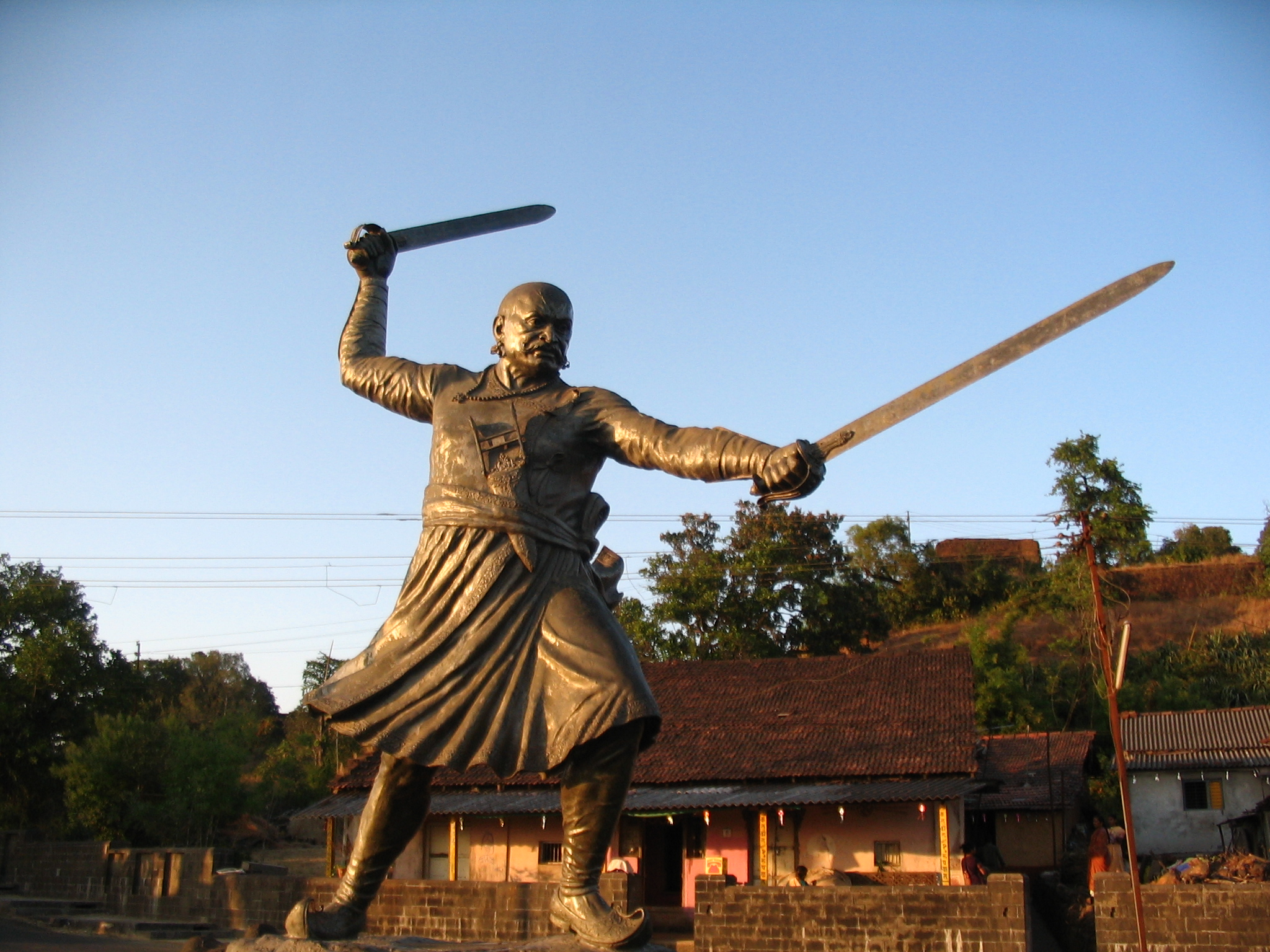 Statue of Baju Prabhu Deshpande at the center of Panhala Fort, Maharashtra, India. His story of defending the Pavan Khind (pass) for Shivaji Maharaj is stuff of legend. He held back thousands of enemy soldiers for hours with only a handful of his warriors in Pavan Khind, till Shivaji Maharaj could safely reach Vishalgad from Panhala. He died in the battle.